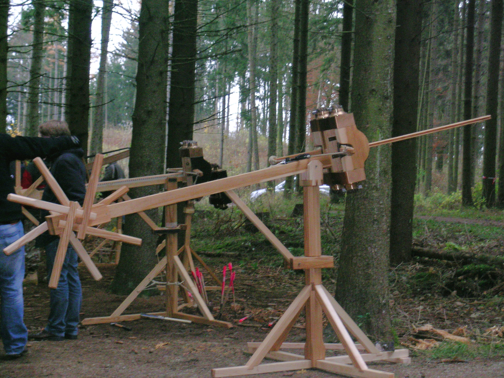 Battle at the Harzhorn: Reconstructed Roman artillery pieces are used to locate the most likely position of roman artillery during the battle at the Harzhorn by firing marked projectiles into the historical impact zones.